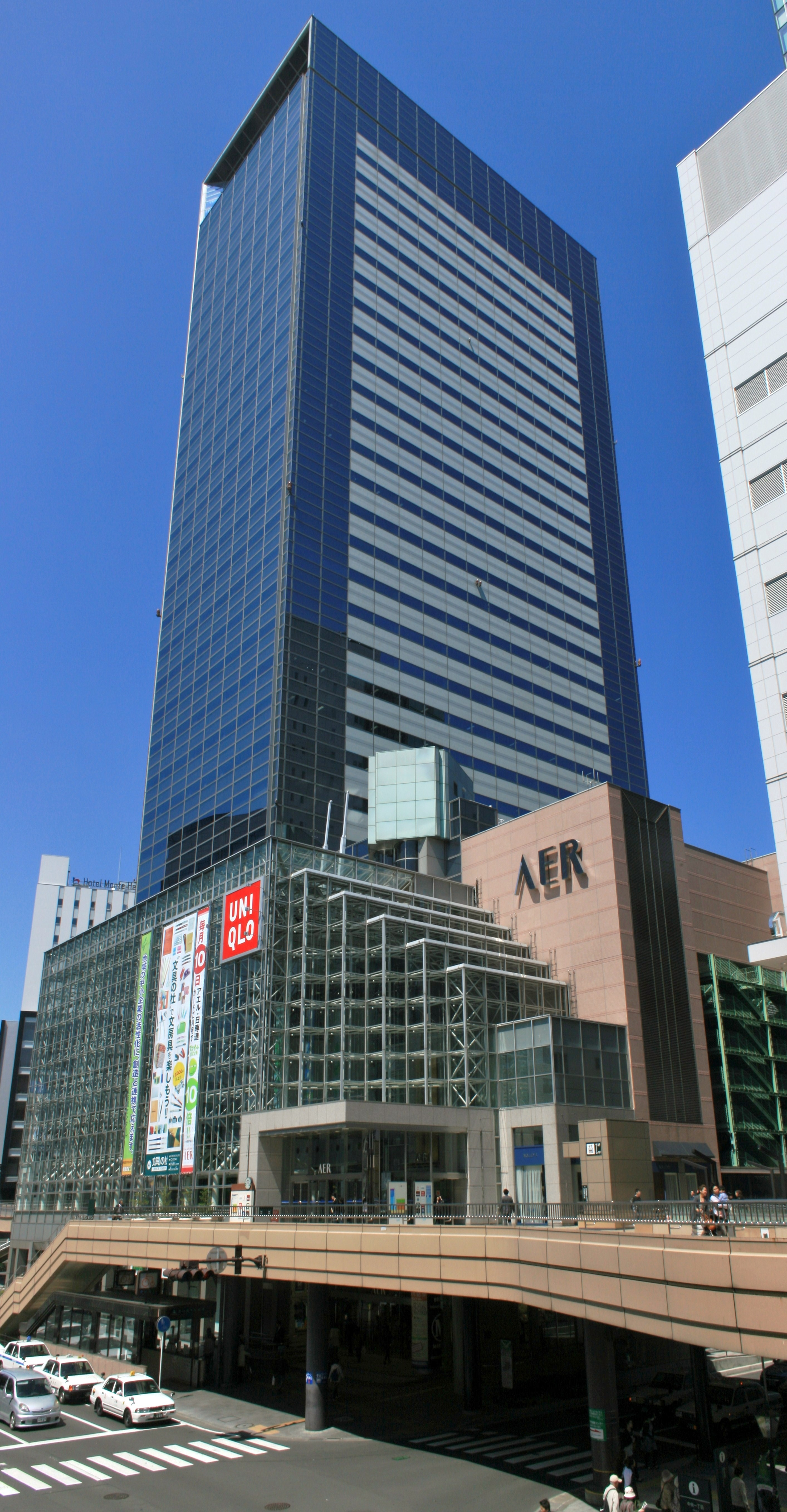 AER in 1-chōme, Chūō, Aoba Ward (Aoba-ku), Sendai City (Sendai-shi), Miyagi Prefecture (Miyagi-ken), Japan. The height to top floor of this skyscraper is 145.5m (477ft), and it is the second tallest building in Sendai City after SENDAI TRUST TOWER (180.0m (591ft)). The height including antenna or spire is the same, and it is the fifth tallest in Sendai City after SENDAI TRUST TOWER (180.0m (591ft)), Sumitomo Life Sendai Central Building (SS30, 172.0m (564ft)), NTT DoCoMo Tōhoku Building (150.0m (492ft)), Tōhoku Electric Power Main Office Building (Energy Square, 148.1m (486ft)). Taken from south-southeast, on the pedestrian deck near the West exit of JR Sendai Station. Stitched 2 photos together by Hugin, and retouched by GIMP2.